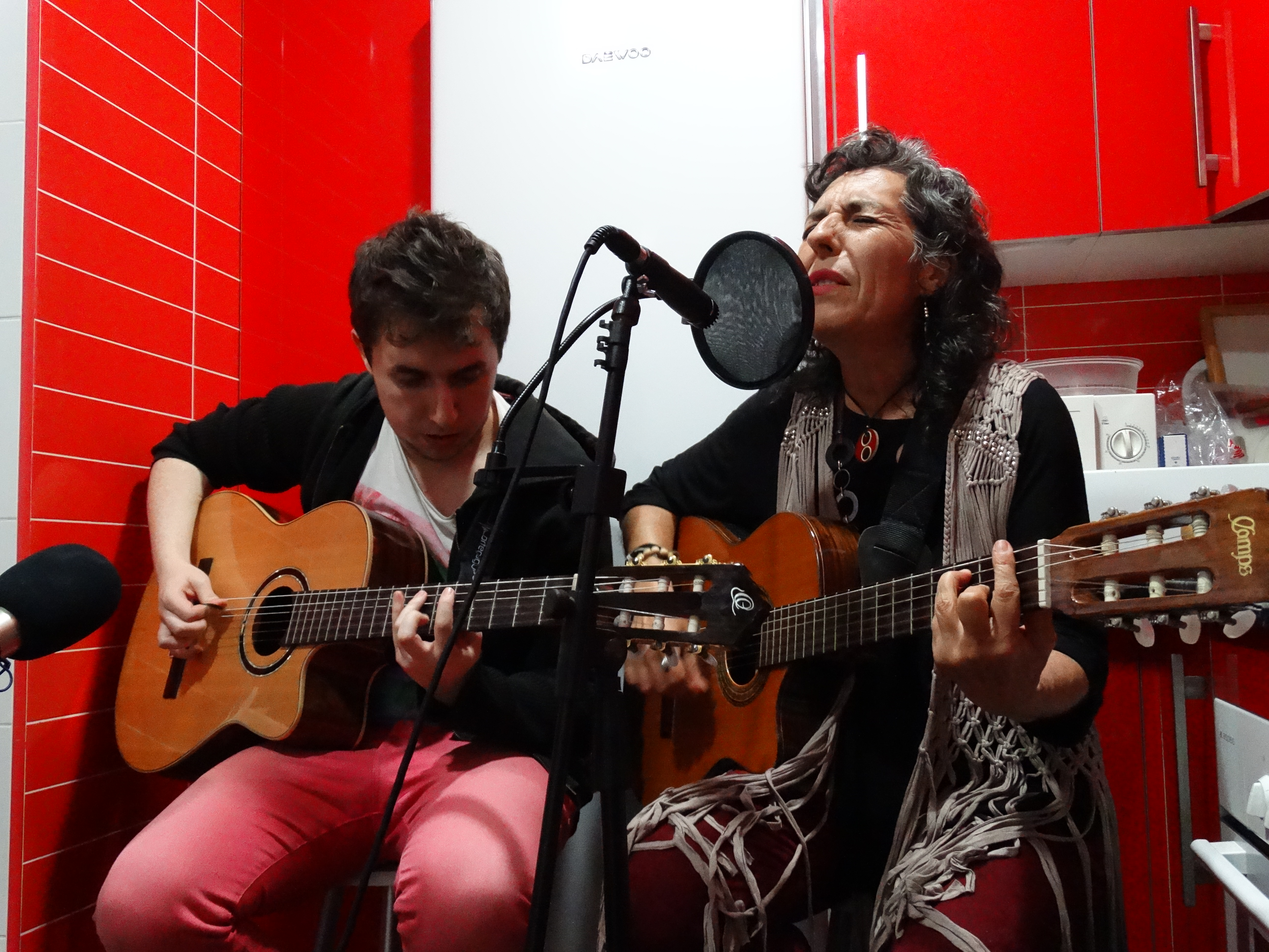 Nieves y su guitarrista Alonso Mochales